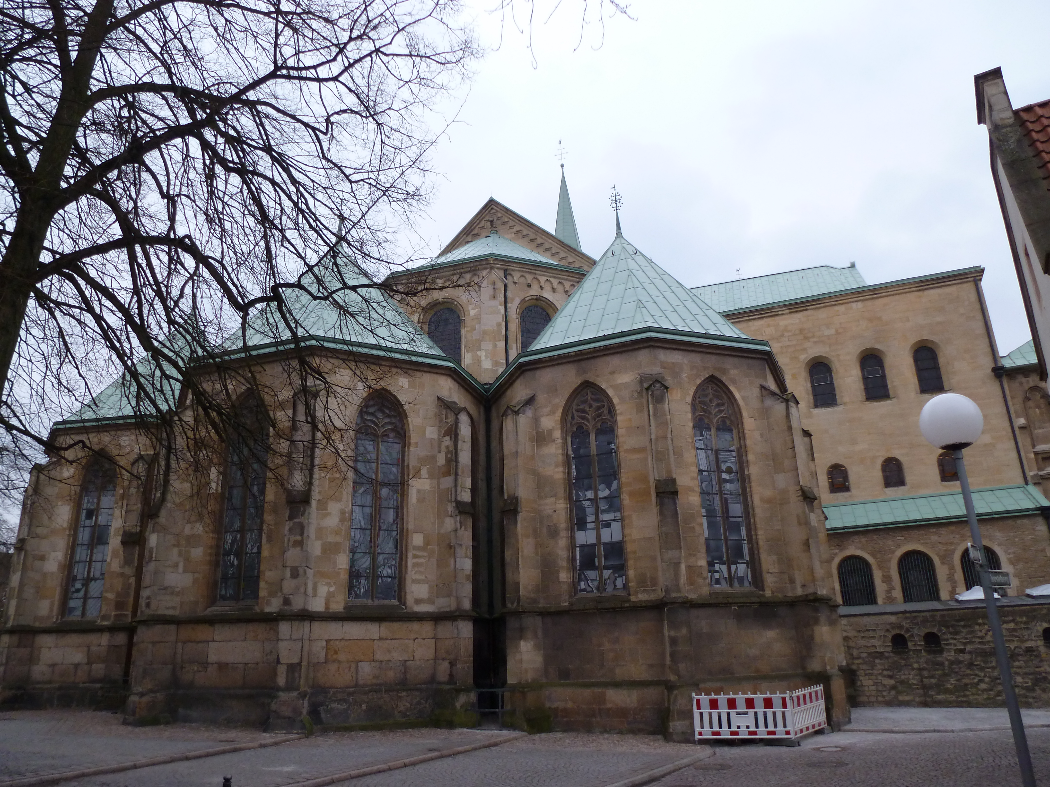 Detailansicht Paulusdom von außen